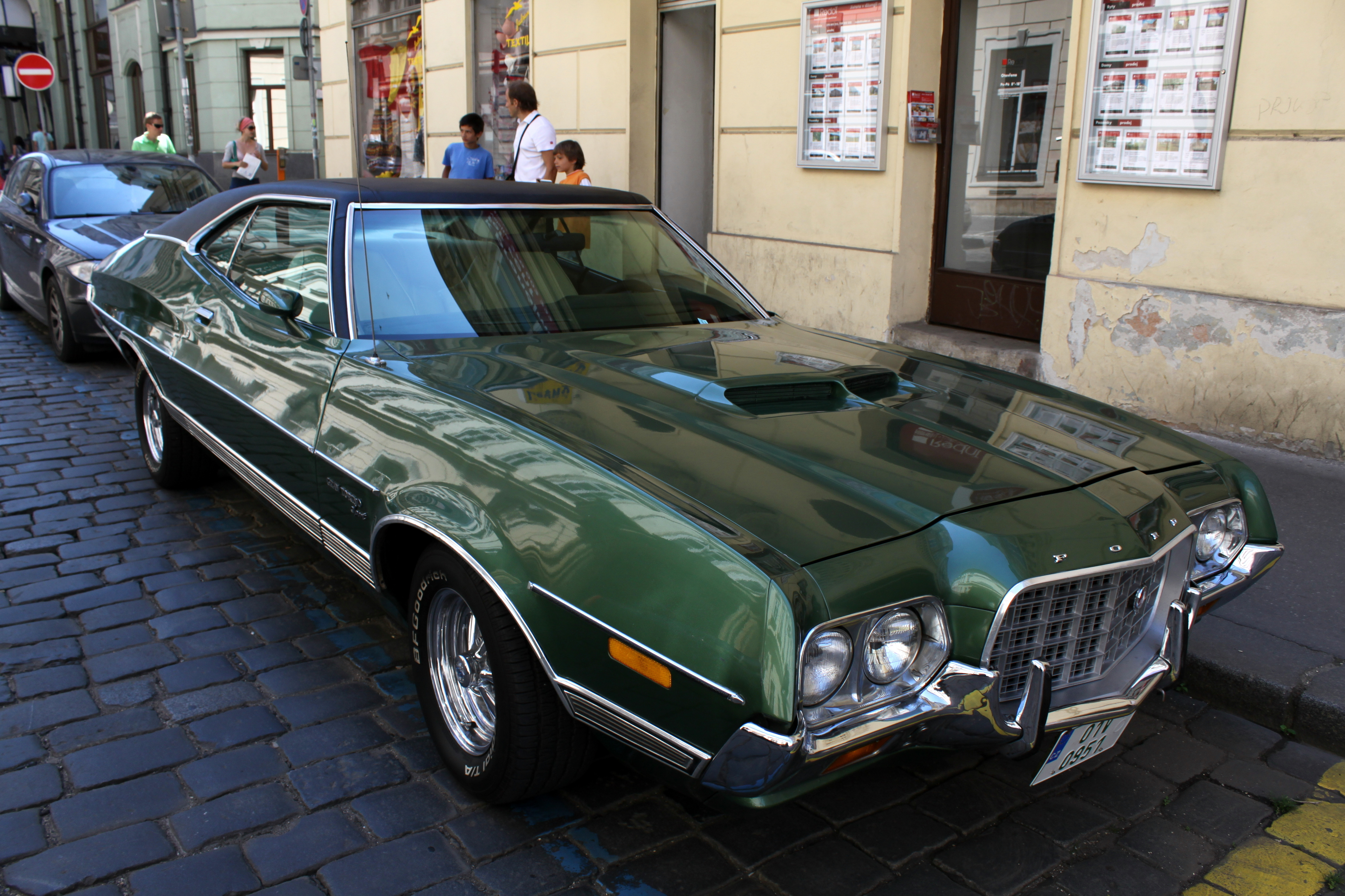 Gran Torino